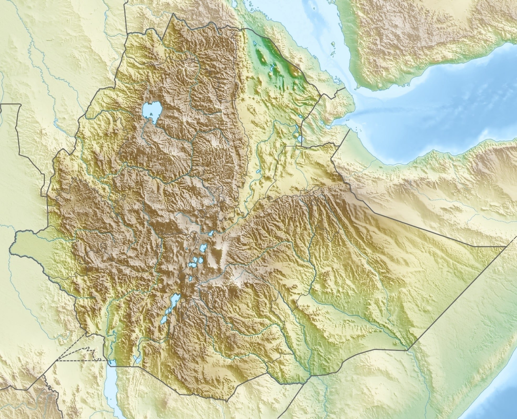 Physical location map of Ethiopia Equirectangular projection, N/S stretching 102 %. Geographic limits of the map: N: 15.3° N S: 2.9° N W: 32.7° E E: 48.3° E